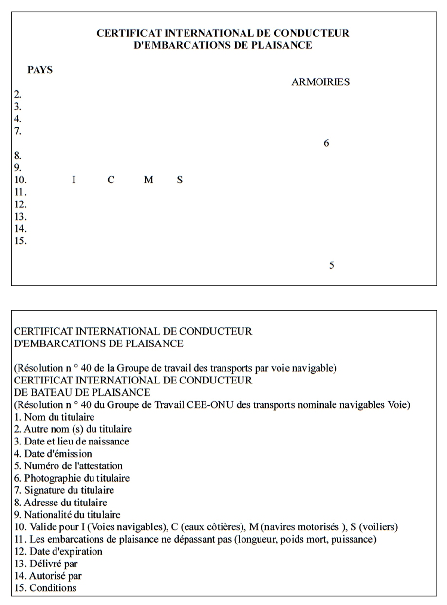 International Certificate for Operators of Pleasure Craft - Resolution No. 40.